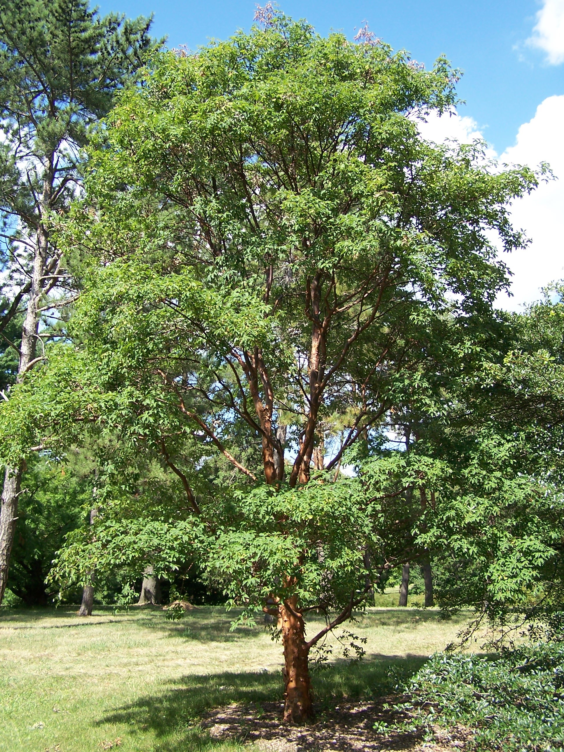 Paperbark Maple Tree, Acer griseum Morton Arboretum acc. 836-58-7